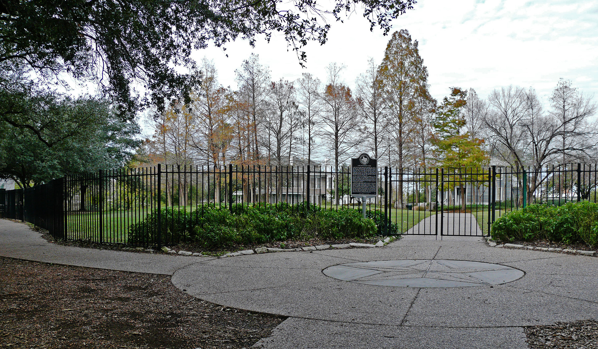 Sam Houston Park began with Nathaniel Kelly Kellum's purchase of 13 acres on the south bank of Buffalo Bayou in 1844 and 1845. Here Kellum built a brick factory, a tannery and his residence. The property was later sold to Zerviah Noble, who held it until it was purchased by the City of Houston in 1899 to become the first public park so designated by the City of Houston. The two-story brick house that had been built by Kellum in 1847 became the headquarters building for the Parks Department. The Park was known as City Park until its name was officially changed to Sam Houston Park in 1903. By 1961, the park had expanded to nearly 21 acres, including property that had formerly been the Episcopal and Masonic cemeteries, yet the popularity of the park as a leisure site had begun to wane. In 1959 almost two acres of the land at the far western edge of the park had been taken for support piers and access ramps for the Interstate 45 elevated roadway, possibly contributing to the park's decline in attractiveness to the public. The Kellum-Noble house stood vacant on the park grounds for several years, and by 1954 the City of Houston announced plans to raze the building. A group of preservation-minded citizens banded together to save the important landmark. The resulting Harris County Heritage and Conservation Society (now known as "The Heritage Society") not only achieved the goal of stabilizing the building and opening it as a museum, but also revitalized the park by creating a home for many historic and replica structures. Other public sculptures and monuments have also found their home in the park. Sam Houston Park has once again become a popular cultural, educational and leisure site for Houston's downtown residents.